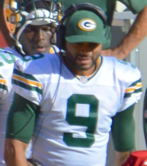 San Francisco 49ers' Donte Whitner tackles Green Bay Packers' Randall Cobb during a 2013 game in San Francisco.